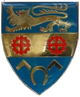 SADF era Pietersburg Commando emblem